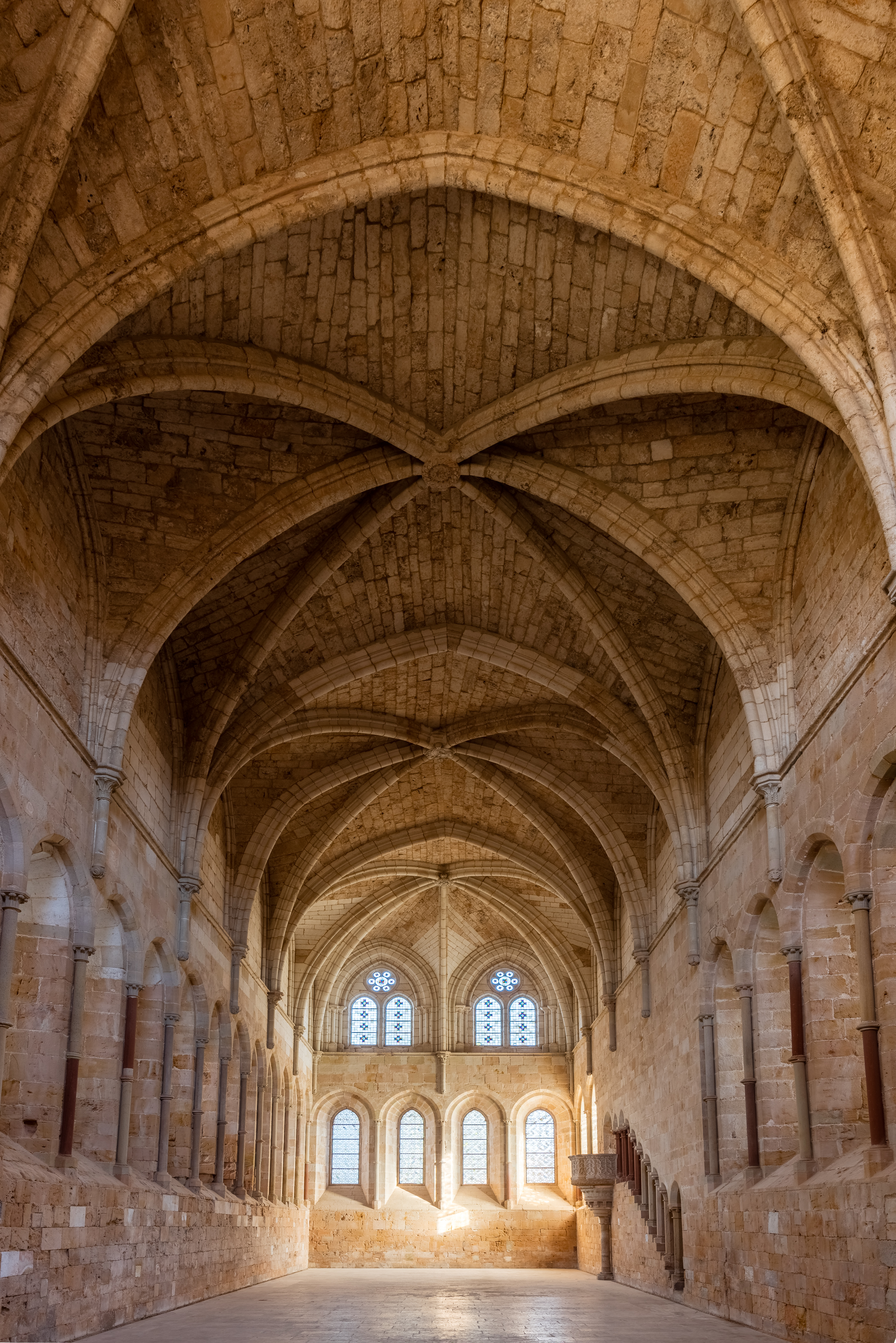 Monastery of Santa María de Huerta, Santa María de Huerta Soria, Spain